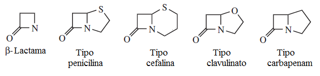 Betalactamic antibiotics scheme